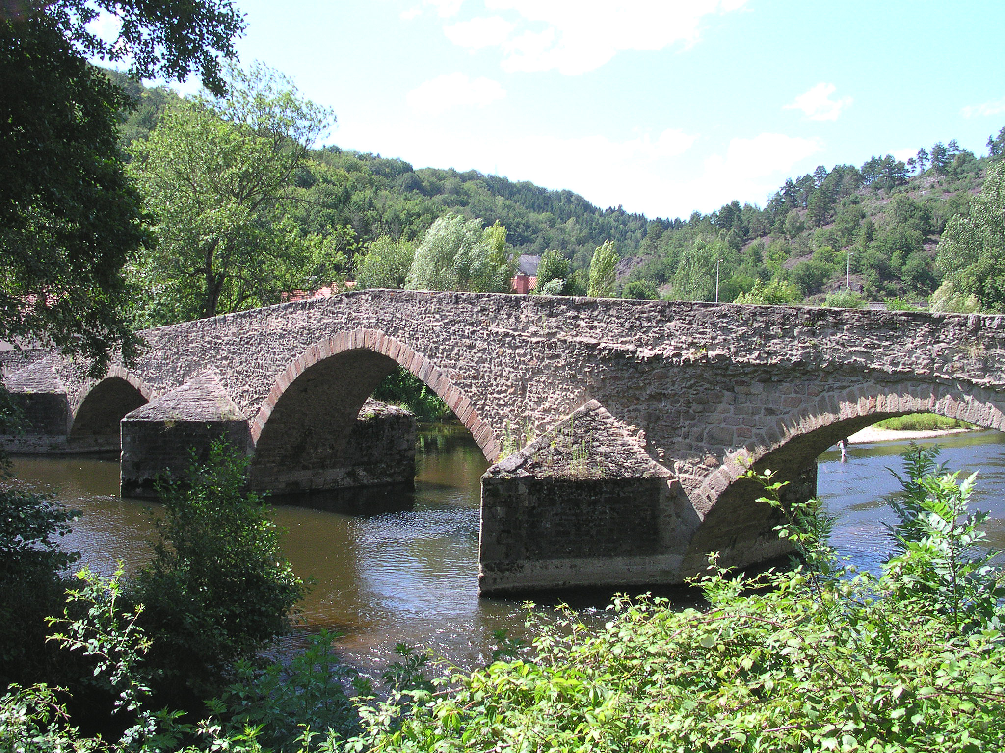 Pont de Menat, the origin of this medieval bridge is not very well known commune of Menat (Puy-de-Dôme, France)